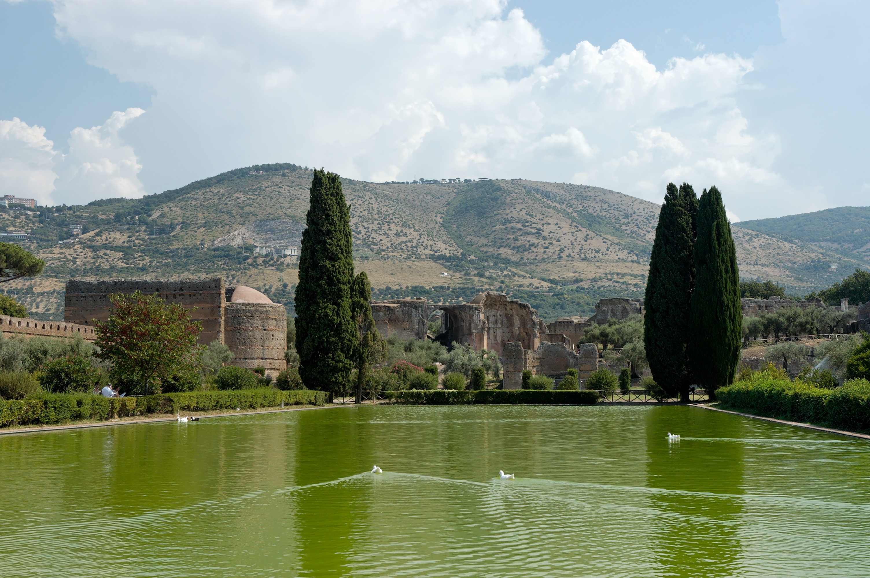 Pond of the Poikile at the Villa Adriana in Tivoli. View from the peristyle, now lost (in the East); middleground: Hall of the Philosophers (left) and Thermae with Heliocaminus (center); background: Monti Tiburtini hills.